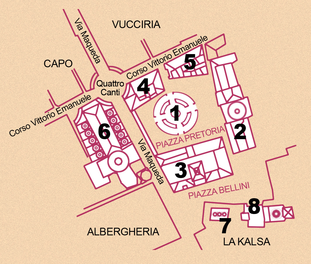 Map of Pretoria square - Palermo